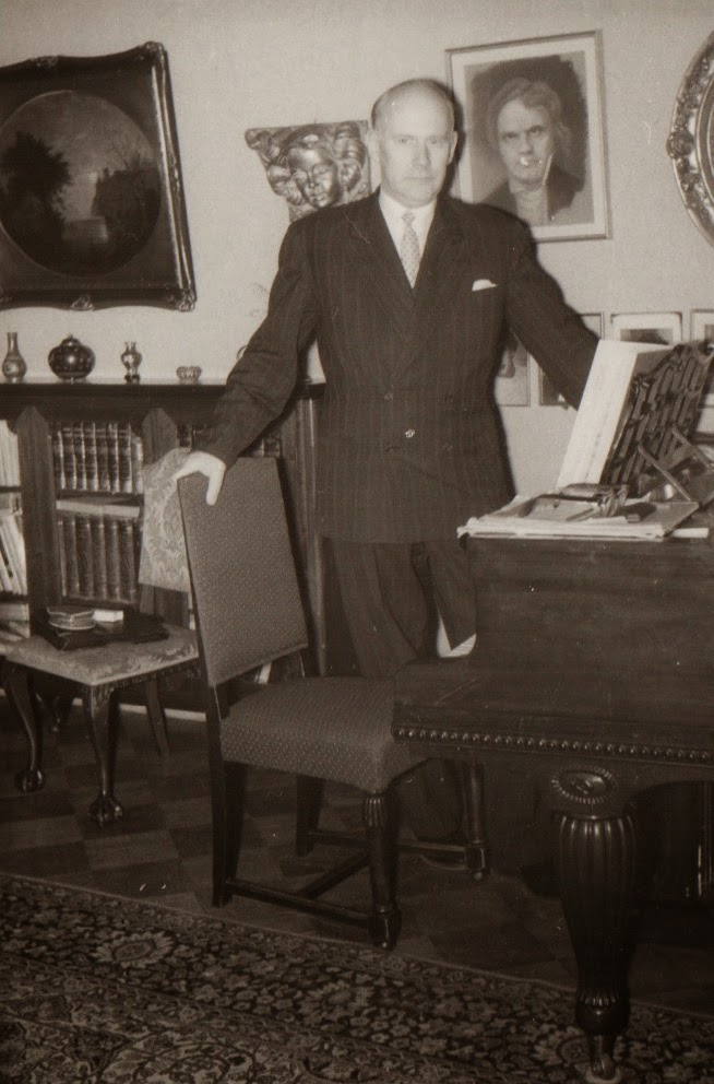 Photograph of the Finnish pianist, educator and composer Sergei Kulanko (1902–1981).